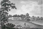 Marbury Hall, Anderton with Marbury, Cheshire. Engraving by William Woolnoth from original by R. Morris, first published in Ormerod's History of Cheshire (1819)